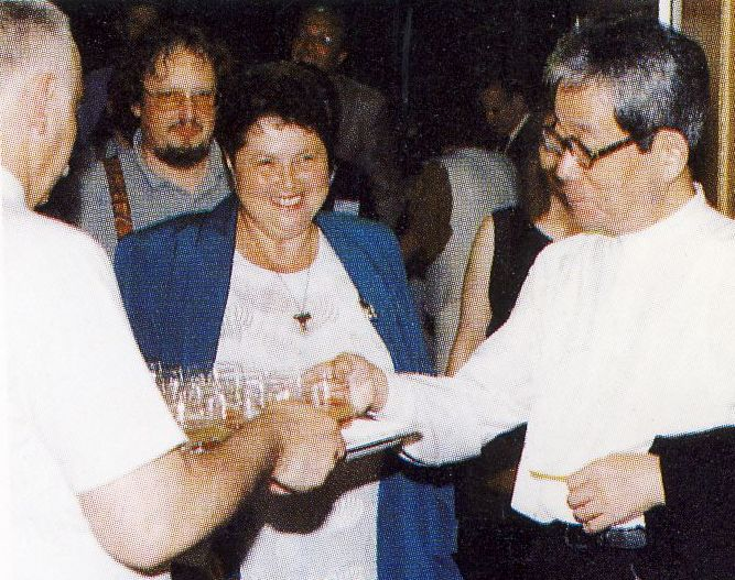 Prof. Dr. Judit Vihar with Kenzaburō Ōe in Budapest in 1997